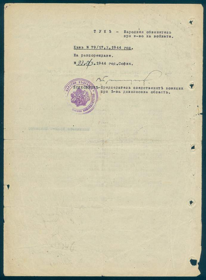 A Letter in Support of General Boris Dimitrov